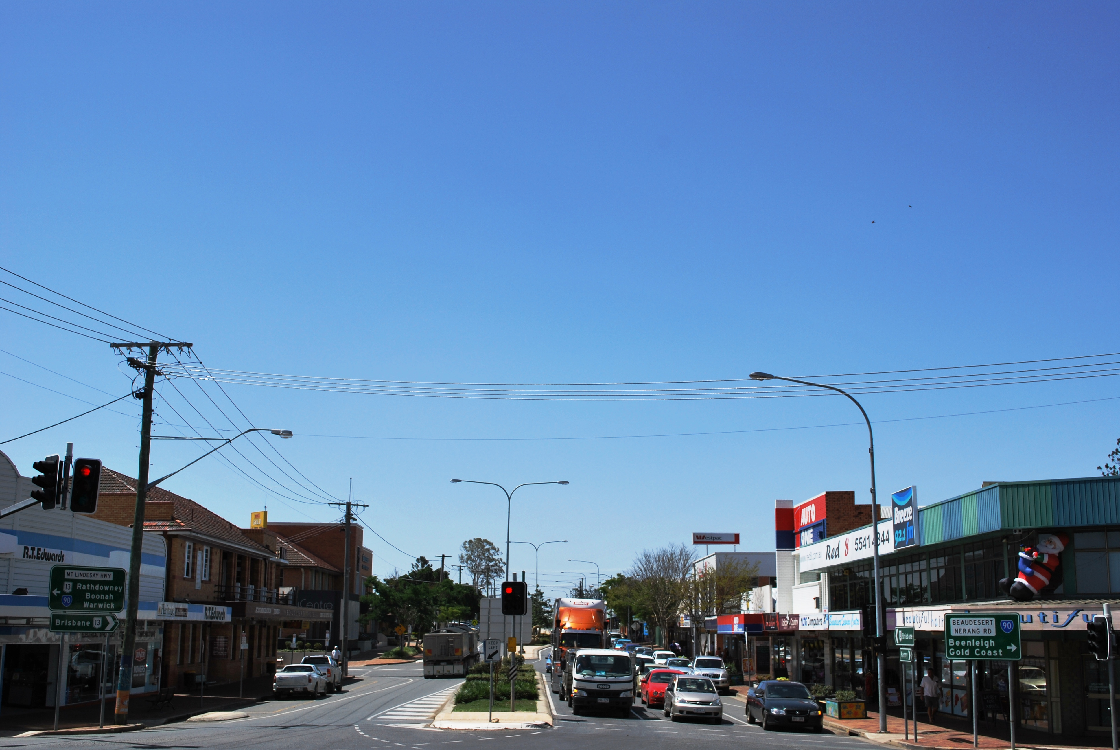 The main street of Beaudesert, Queensland